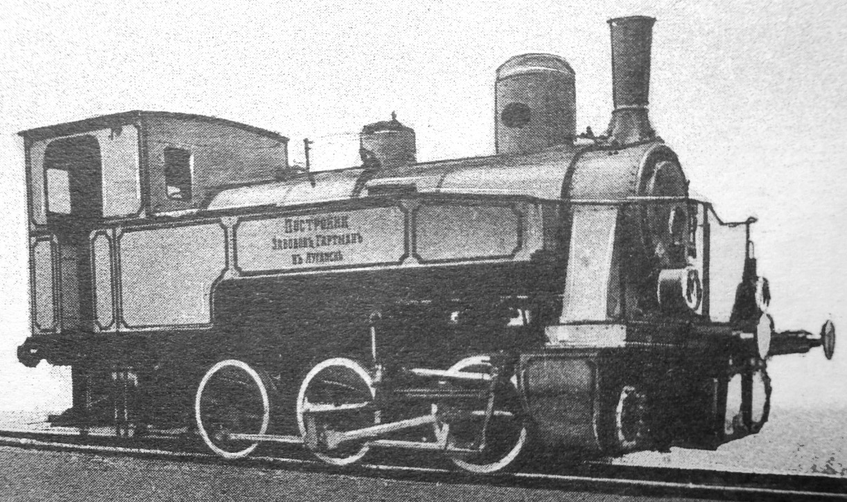 Russian Tank loc type 234 by Kharkov Works